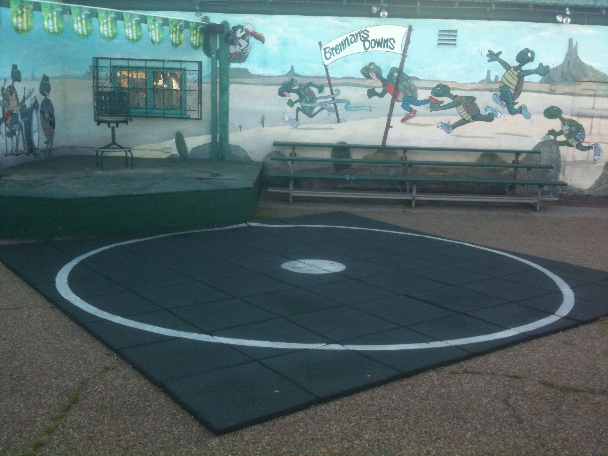 The turtle racing course at Brennan's, Marina del Rey CA